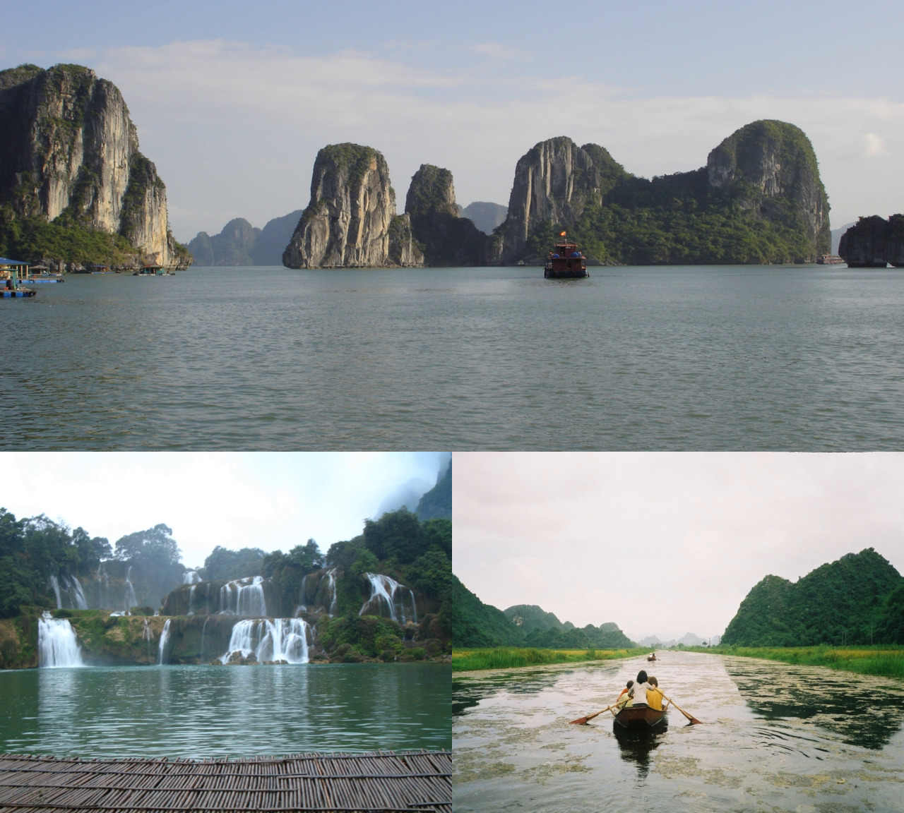 A composite image of Vietnamese nature from these images. Upload by Ondřej Žváček Upload by Paris 16(By Phil Whitehouse on Flickr) Upload by Bình Giang(By Denise Chan on Flickr)